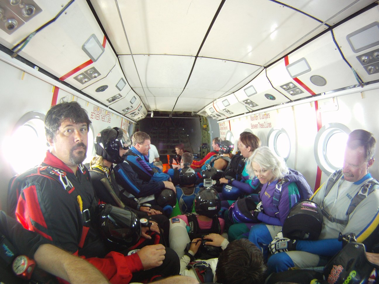 Skydivers waiting to exit a CASA C-212. Source: GoPro HD Hero camera